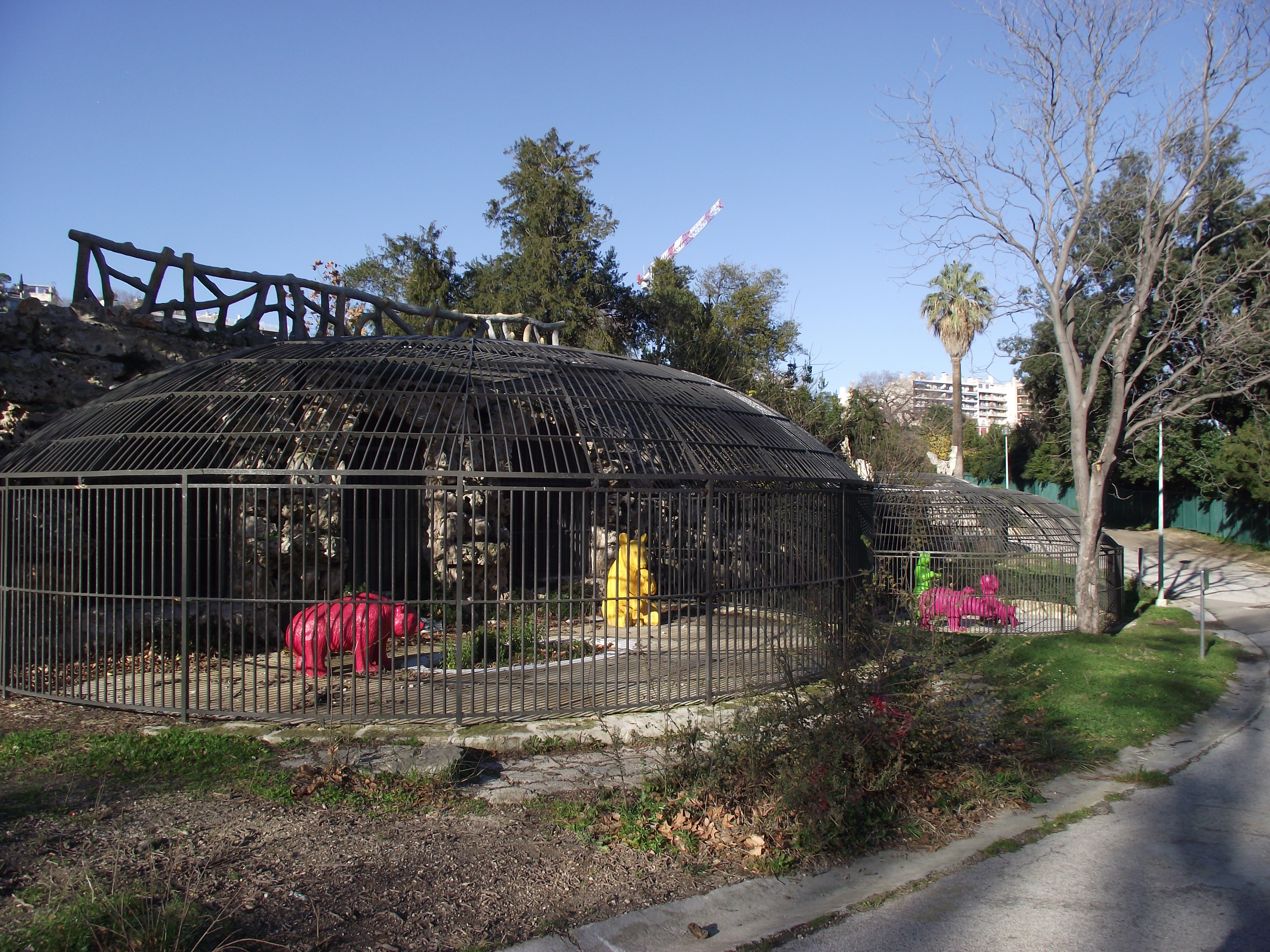 Cinq-Avenues | Rue Espérandieu The Longchamp Palace is composed of three entities: a central water tower with a semicircular colonnade on both sides built to commemorate the arrival in Marseilles of water from River Durance, the Museum of Fine Arts and the Natural History Museum. Arch. Henri Espérandieu 1869. At the rear of the palace, located in the Longchamp park, are located the botanical garden and zoo, although the latter hasn't hosted animals anymore since the late 1980s.